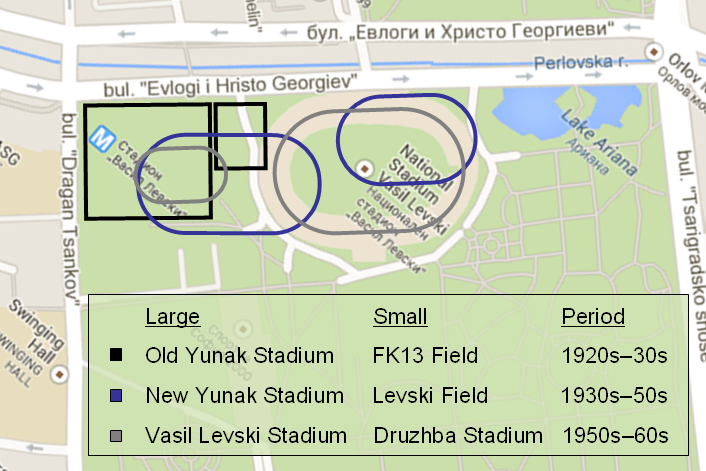 This is a historical overlay map for the six stadiums which have been located at the north-western end of Sofia's Borisova Gradina at different periods during the 20th Century, with a labelled key. They are: the Old and New Yunak Stadiums, FK13 Field, Levski Field, the Vasil Levski National Stadium, and the Druzhba Stadium. As of the 2000s, the only stadium that still stands is the Vasil Levski Stadium, which is currently larger than it was originally, since its stands were significantly extended during the 1960s.